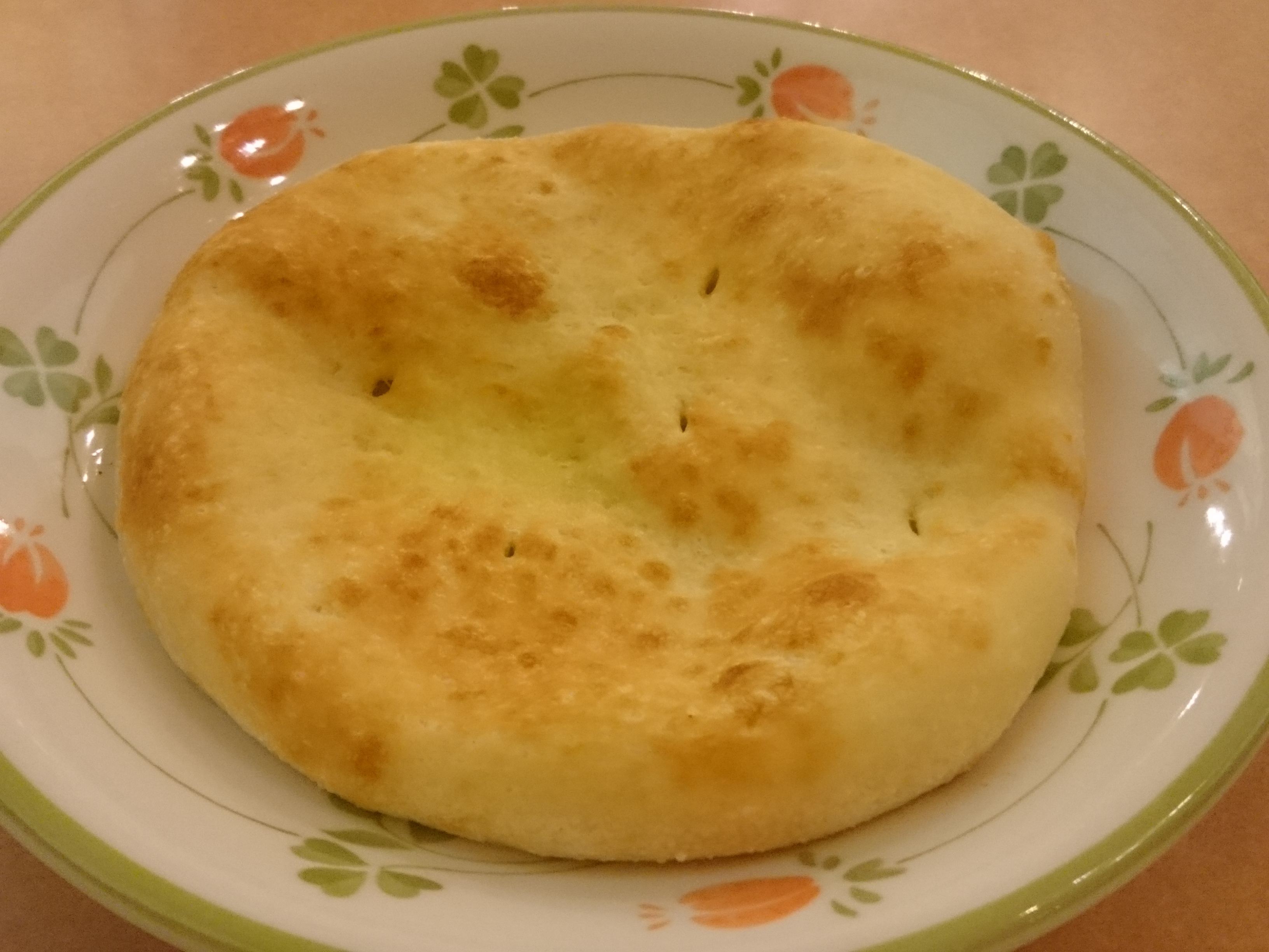 Saizeriya's Focaccia